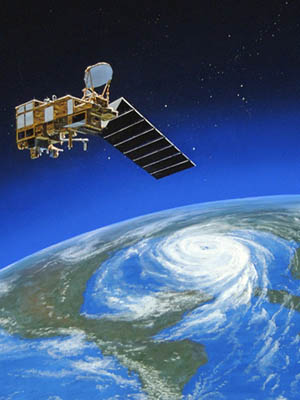 Concept illustration of a satellite of the National Polar-orbiting Operational Environmental Satellite System (NPOESS)